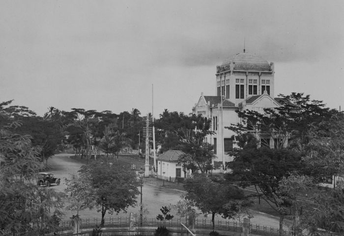 A picture of the office of N.V. De Bouwploeg in New Gondangdia of Batavia or Jakarta now. This building is now converted into a Cut Mutiah Mosque